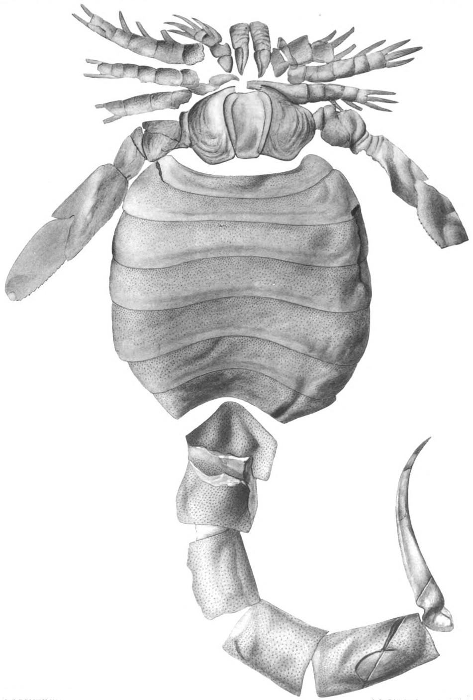 Paracarcinosoma (Eusarcus) scorpionis. The Eurypterida of New York. Volume 2. New York State Museum Memoir 14, plate 32